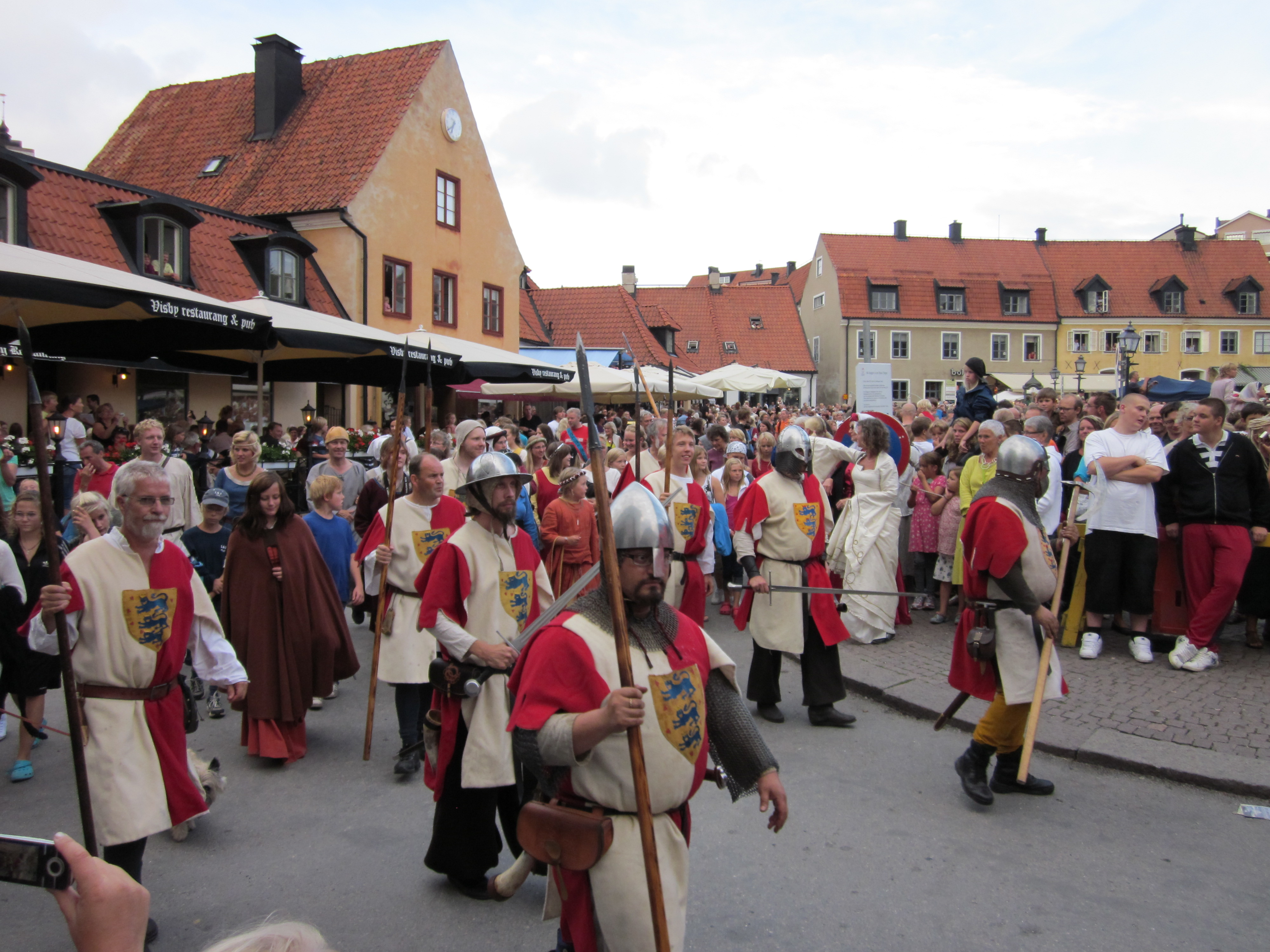 Invasion of Visby by the Danish during the Medieval Week on Gotland 2010.